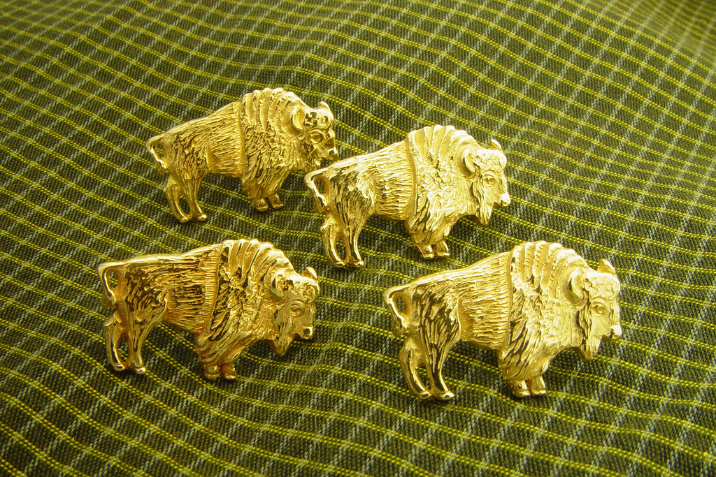 Four bison pins in yellow gold (14 carats). Photography taken by a Canadian jeweller